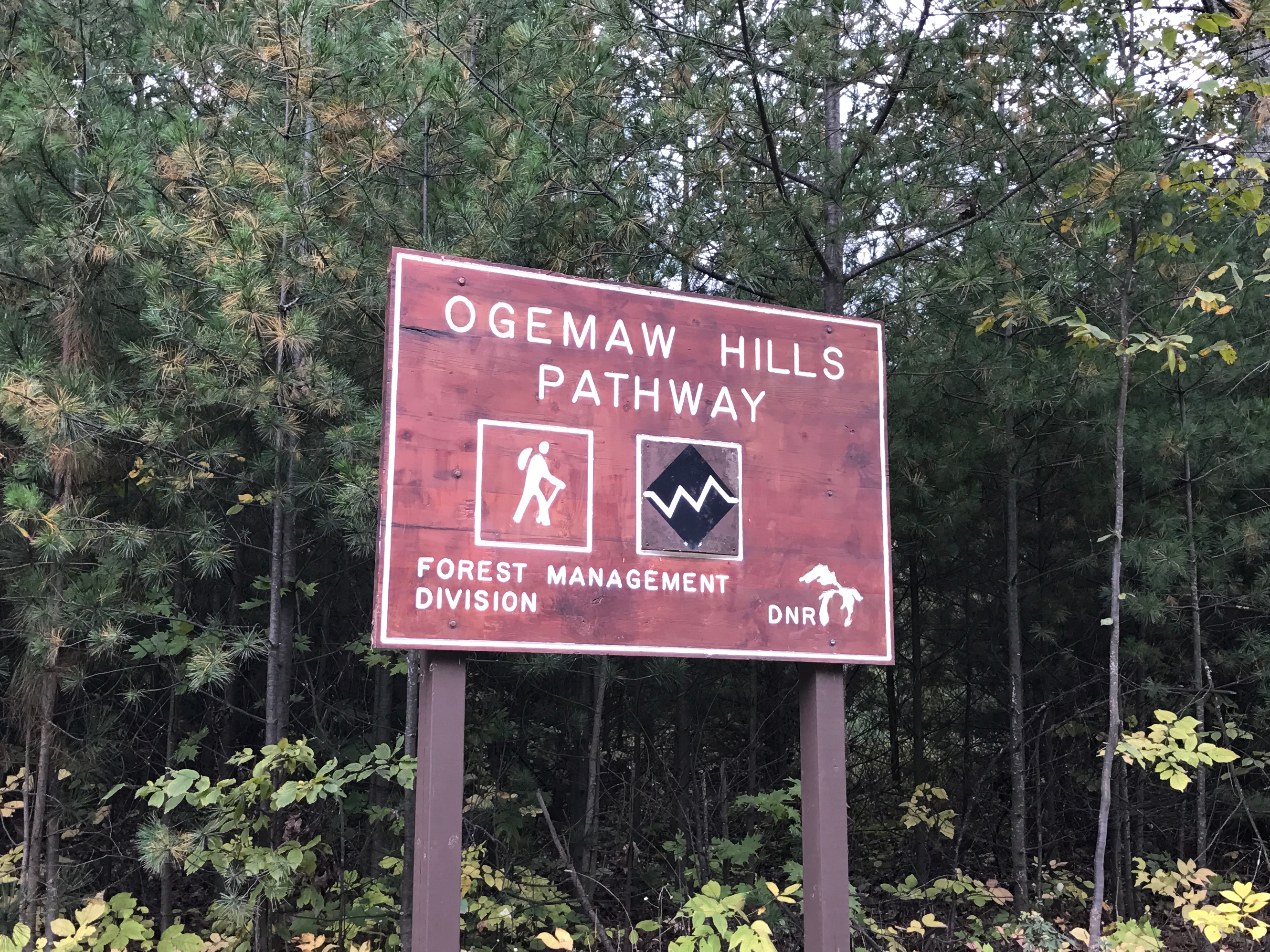 Picture of Ogemaw Hills Pathway Sage Lake Road Trailhead Sign